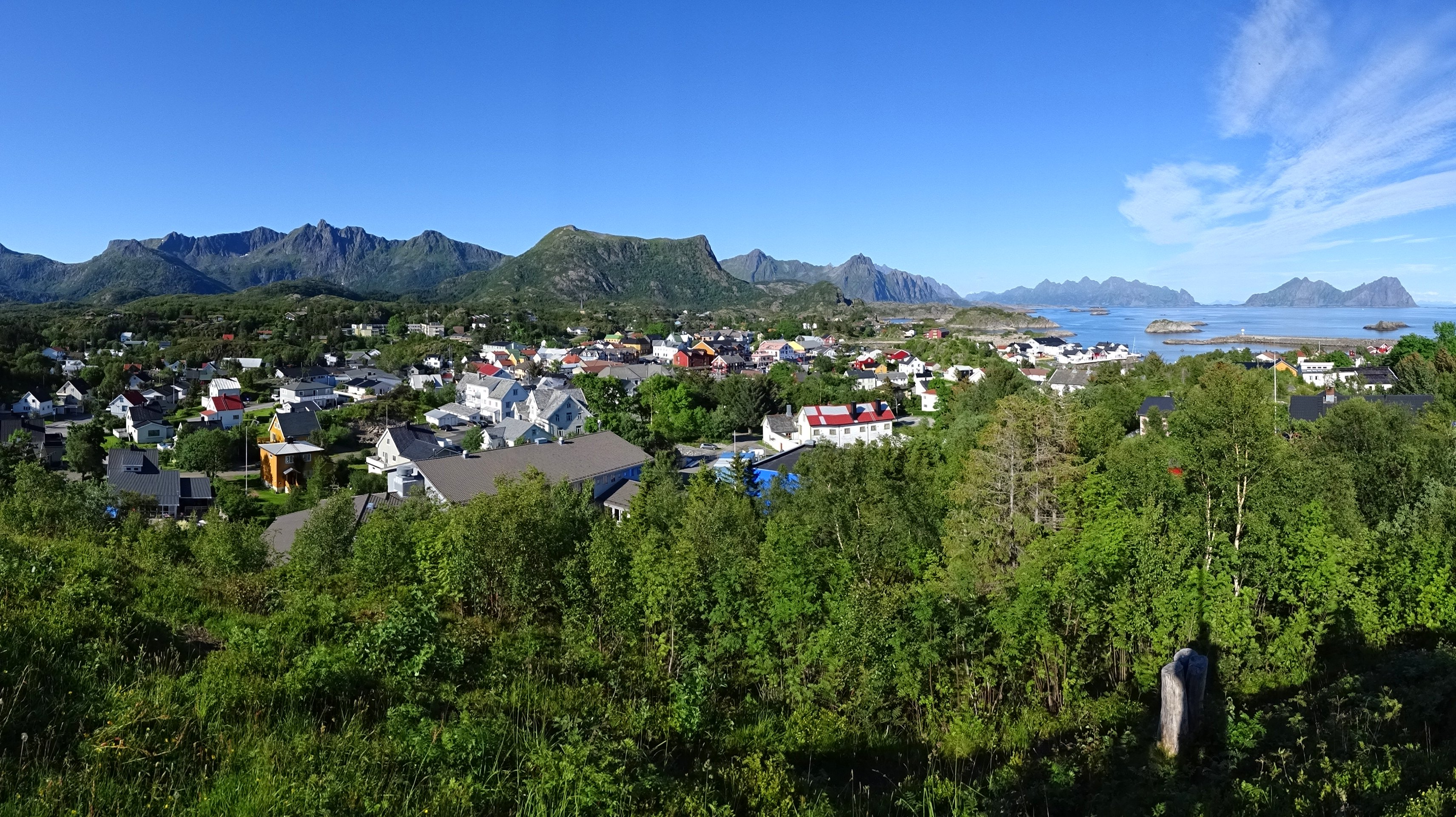 Kabelvåg seen from a hill, looking north,north-east.